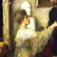 James Sant (died 1916) showing 'Linnean Society of London: First Formal Admission of Women Fellows', painted in 1906. ref -Proceedings of the Linnean Society of London. (One Hundred and Eighteenth Session, 1905‐1906.) November 2nd, 1905, to June 21st, 1906. She features in the portrait by James Sant showing 'Linnean Society of London: First Formal Admission of Women Fellows', painted in 1906. Gage, A. T. (1938). A history of the Linnean Society of London: Printed for the Linnean Society by Taylor and Francis, p.90. Constance Sladen She is the standing figure centre-left in the portrait.